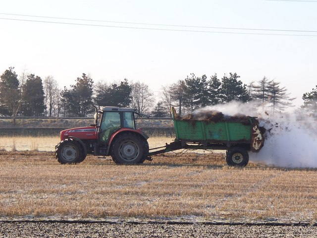 Manure spreading near to Skinflats, Falkirk, Great Britain. On a cold winter day, the steam produced as a result of respiring bacteria in the manure creates an interesting spectacle.